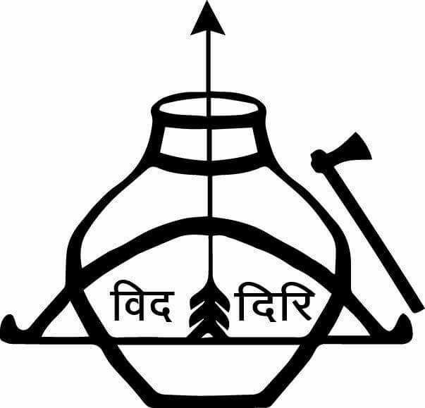 peace and unity